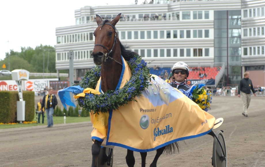 Bellman Töll and driver Ulf Ohlsson after winning "Sweden Cup" at Solvalla, 2005-05-28.